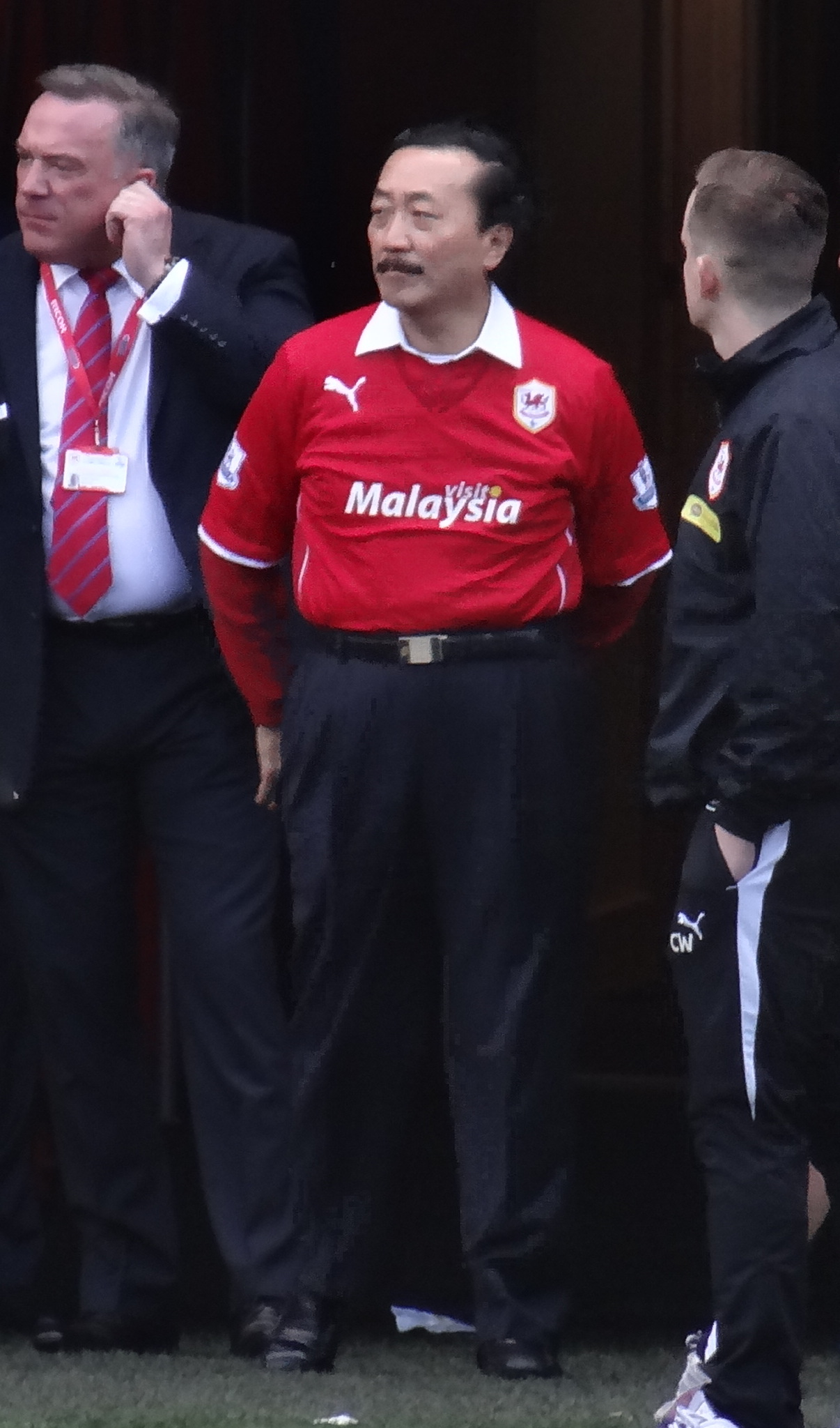 Vincent Tan in old Cardiff City red shirt